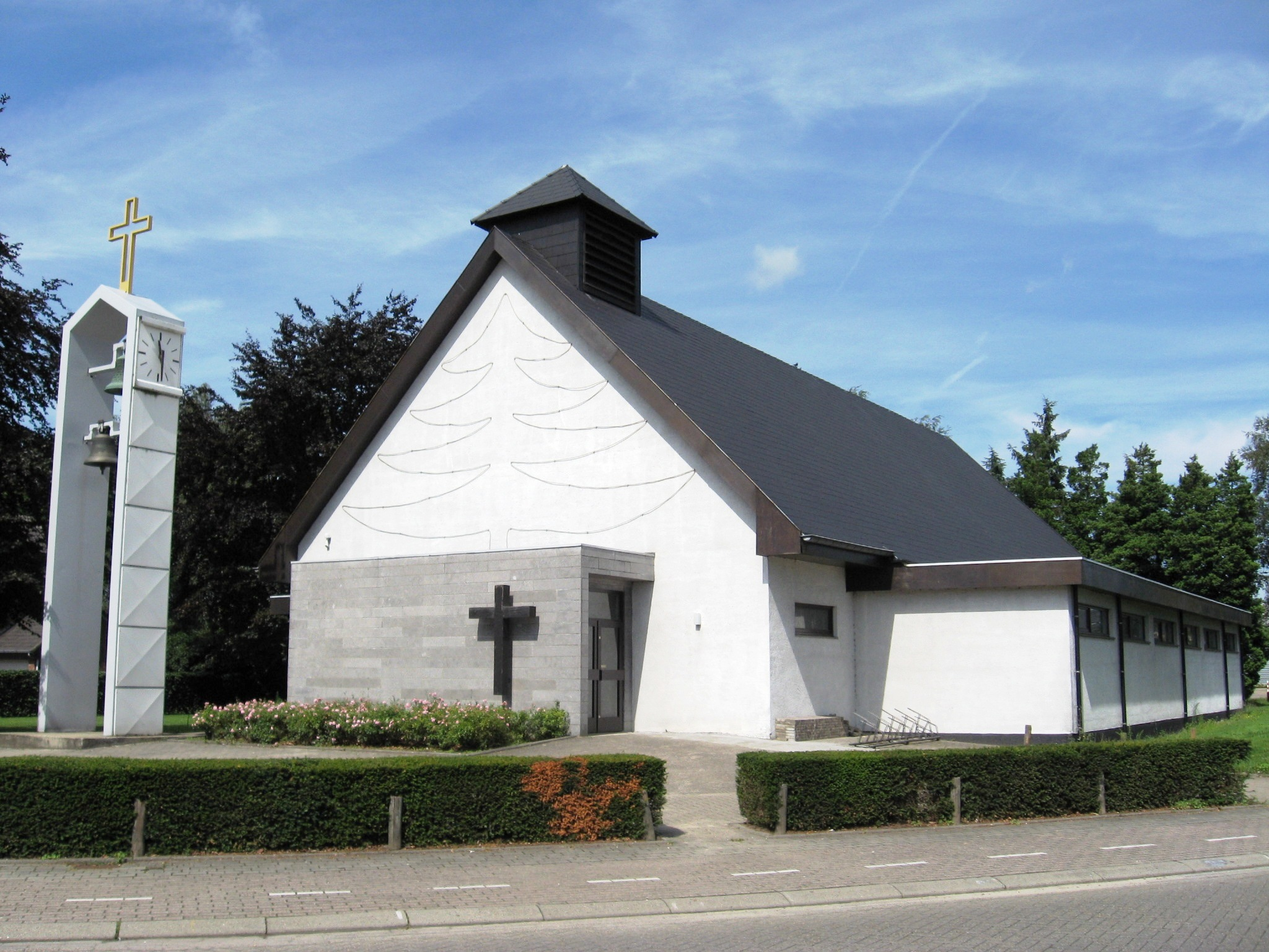 Church of Our Lady of Banneux in Houthalen (Houthalen-Oost), Houthalen-Helchteren, Limburg, Belgium